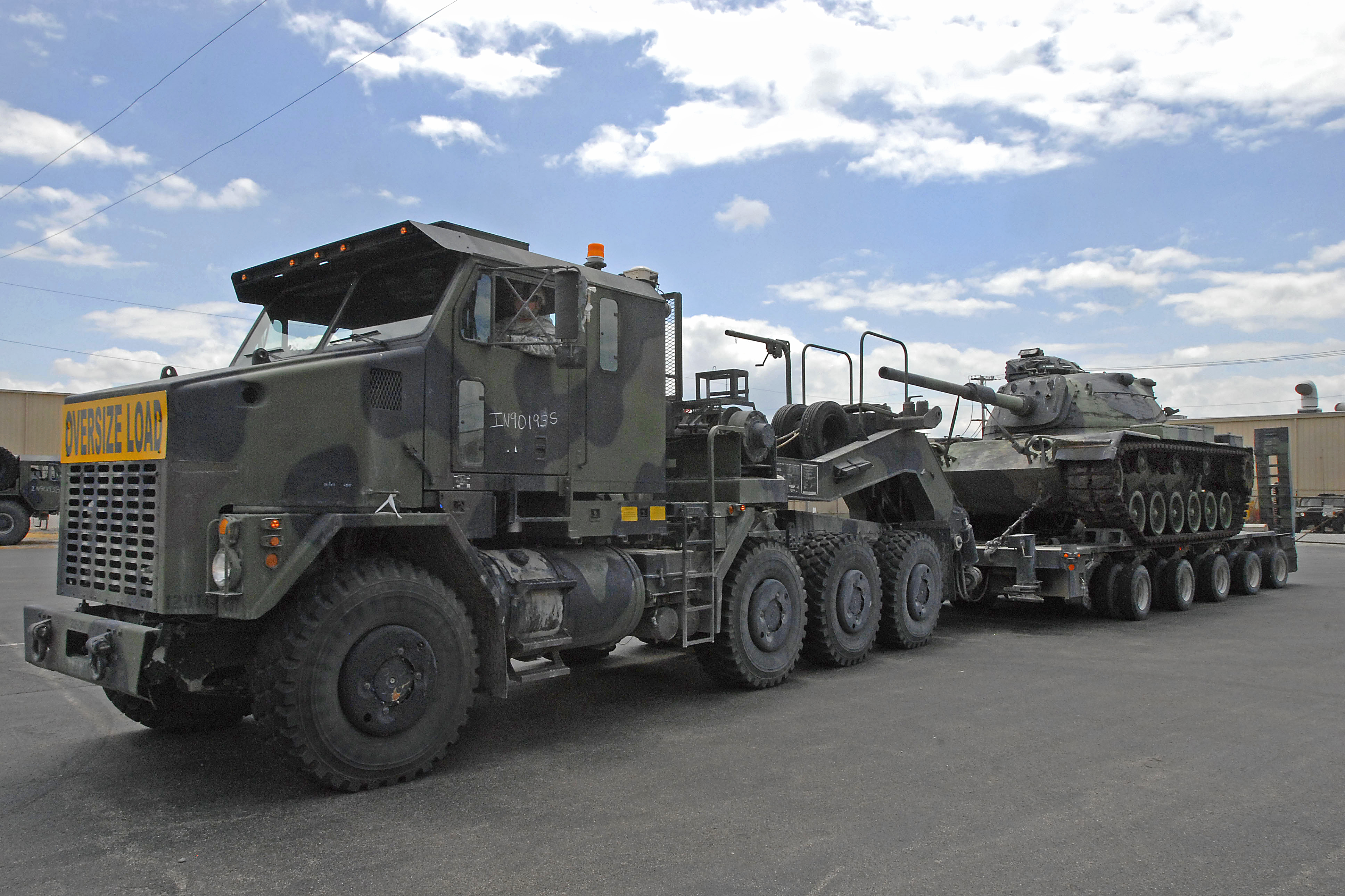 A vehicle designed to transport heavy equipment carries an M60 Patton Tank at the National Guard Armory in Bluffton, Ind., June 30, 2009. U.S. Army Photo by Spc. John Crosby